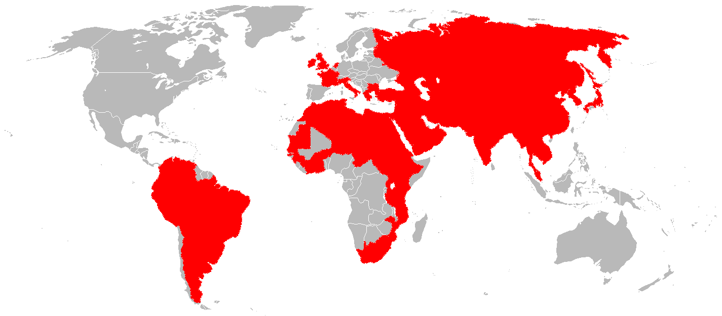 Countries in which FMD, serotype O was reported to the OIE between 1990 and 2002.